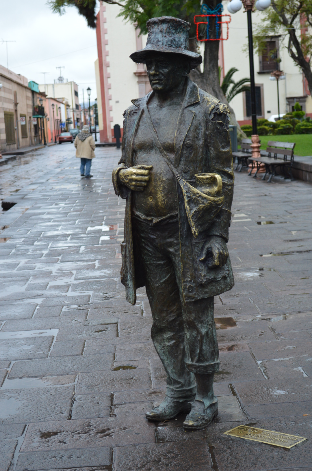 Sculpture of Juan del Jarro in the San Francisco plaza of San Luis Potosi, Mexico